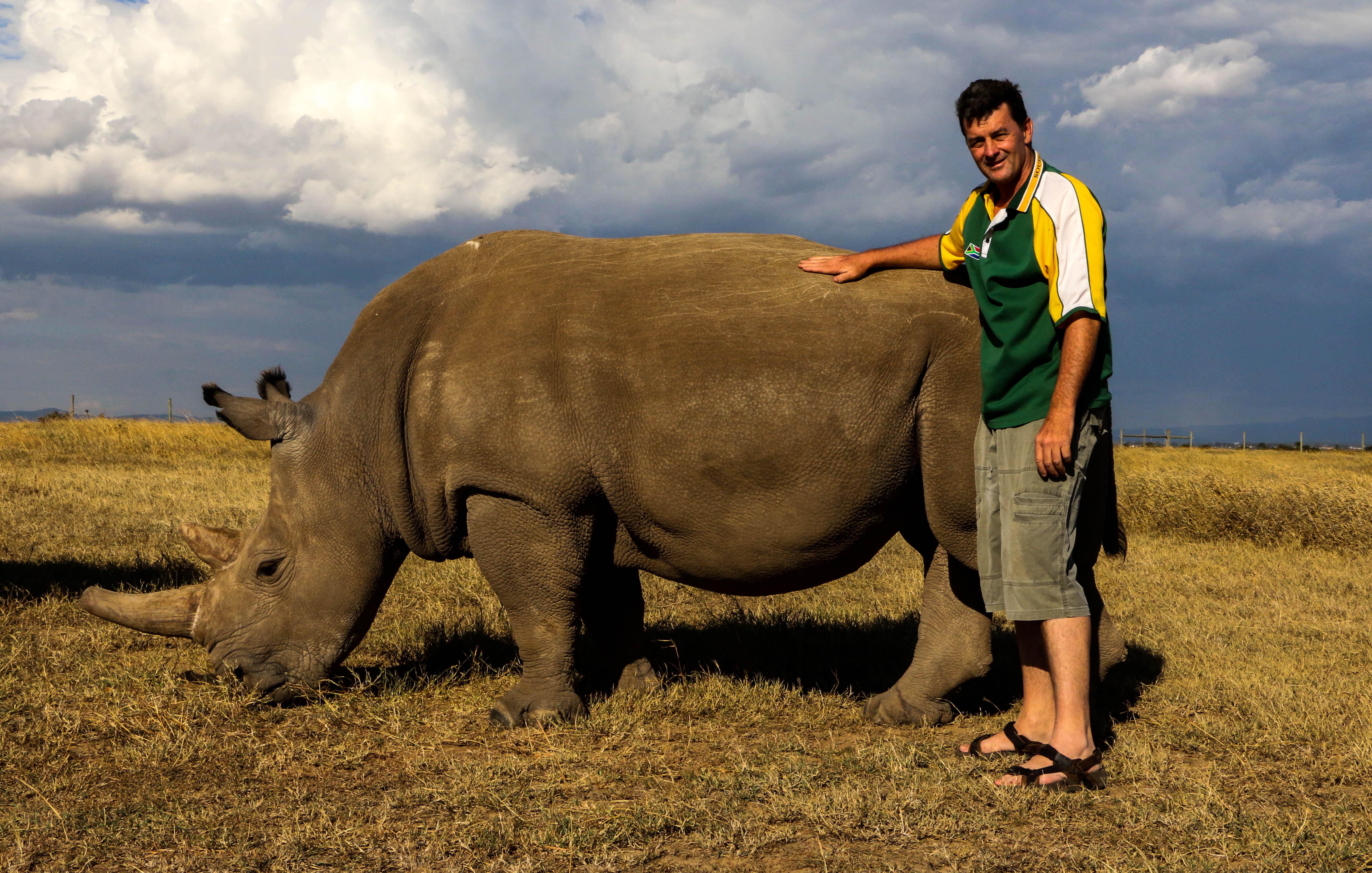 Dr. Morne de la Rey with one of the Rhinos on Ol Pejeta in Kenya.